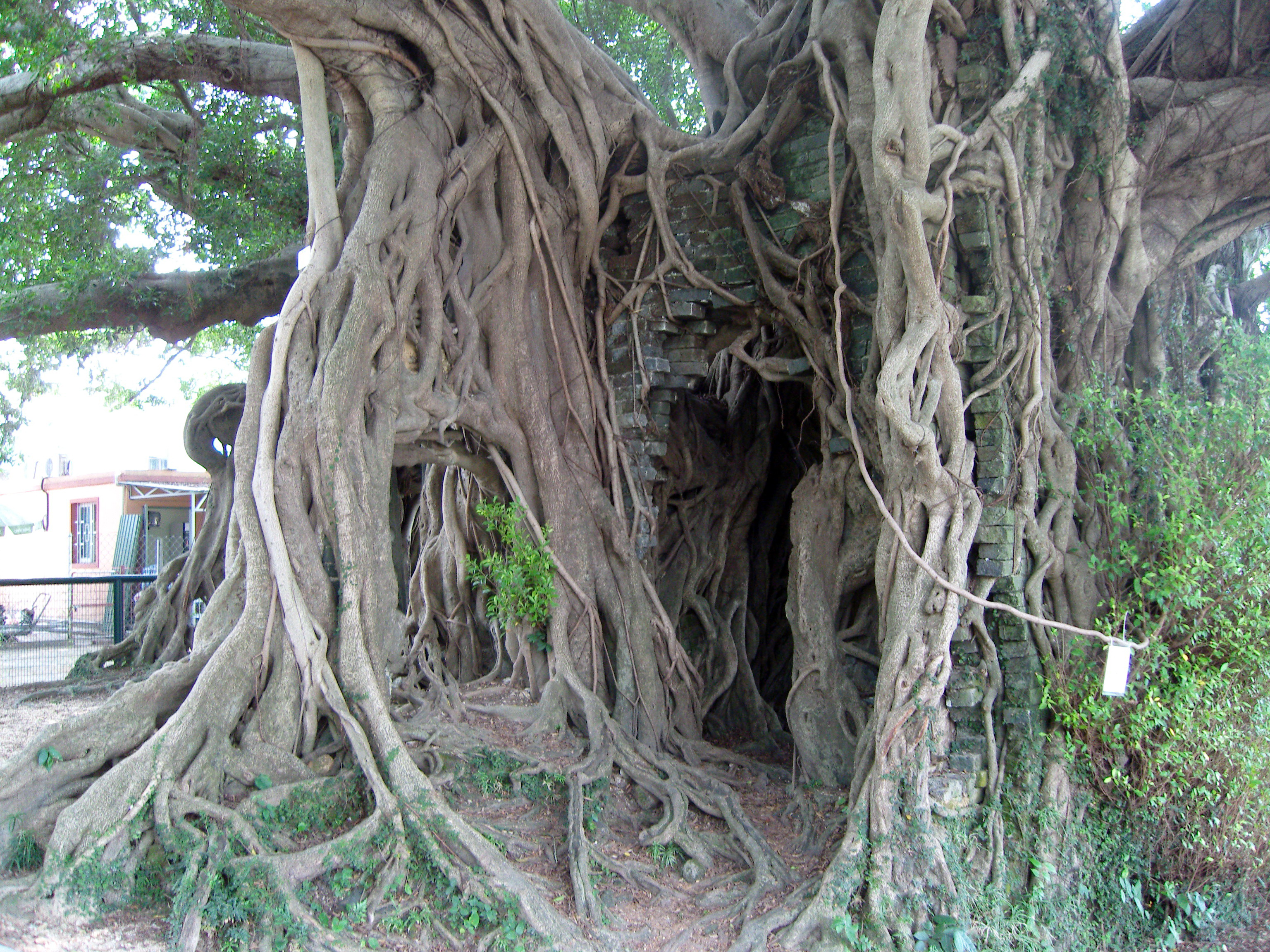 Kam Tin Tree House (An old banyan tree grew bigger and bigger besides the stone house, and after centuries, there're only part of brick walls and a granite doorframe left under the huge tree.) in Shui Mei Village Kam Tin, Hong Kong.